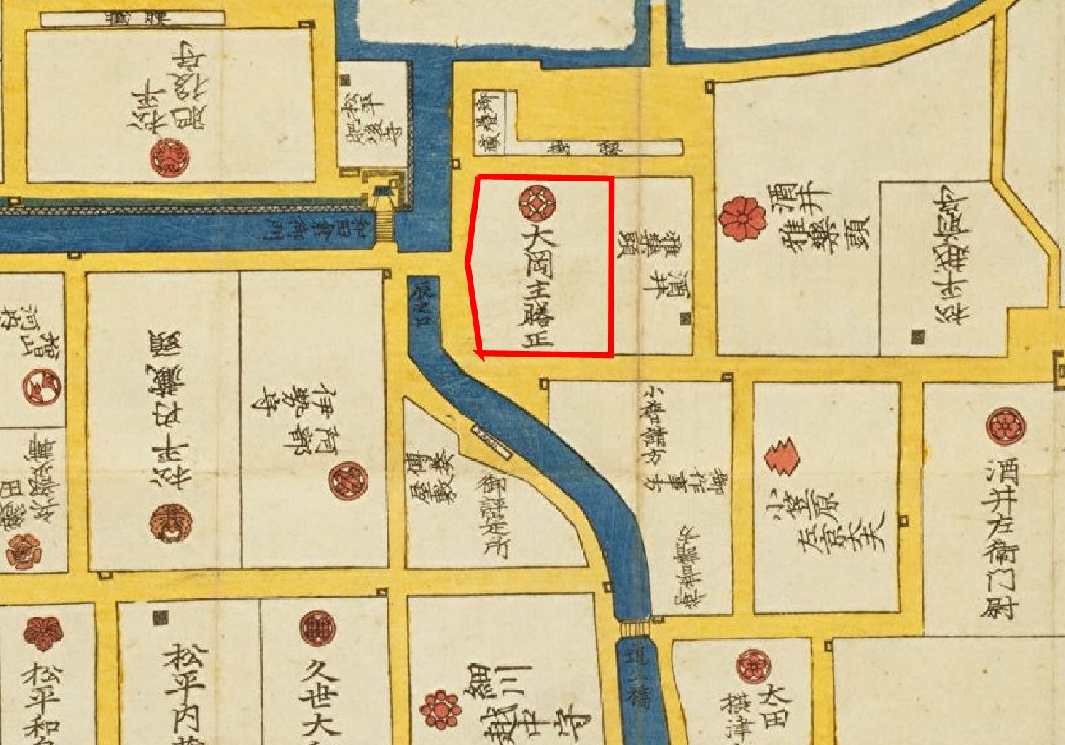 Residence of Ôoka clan at Edo 1